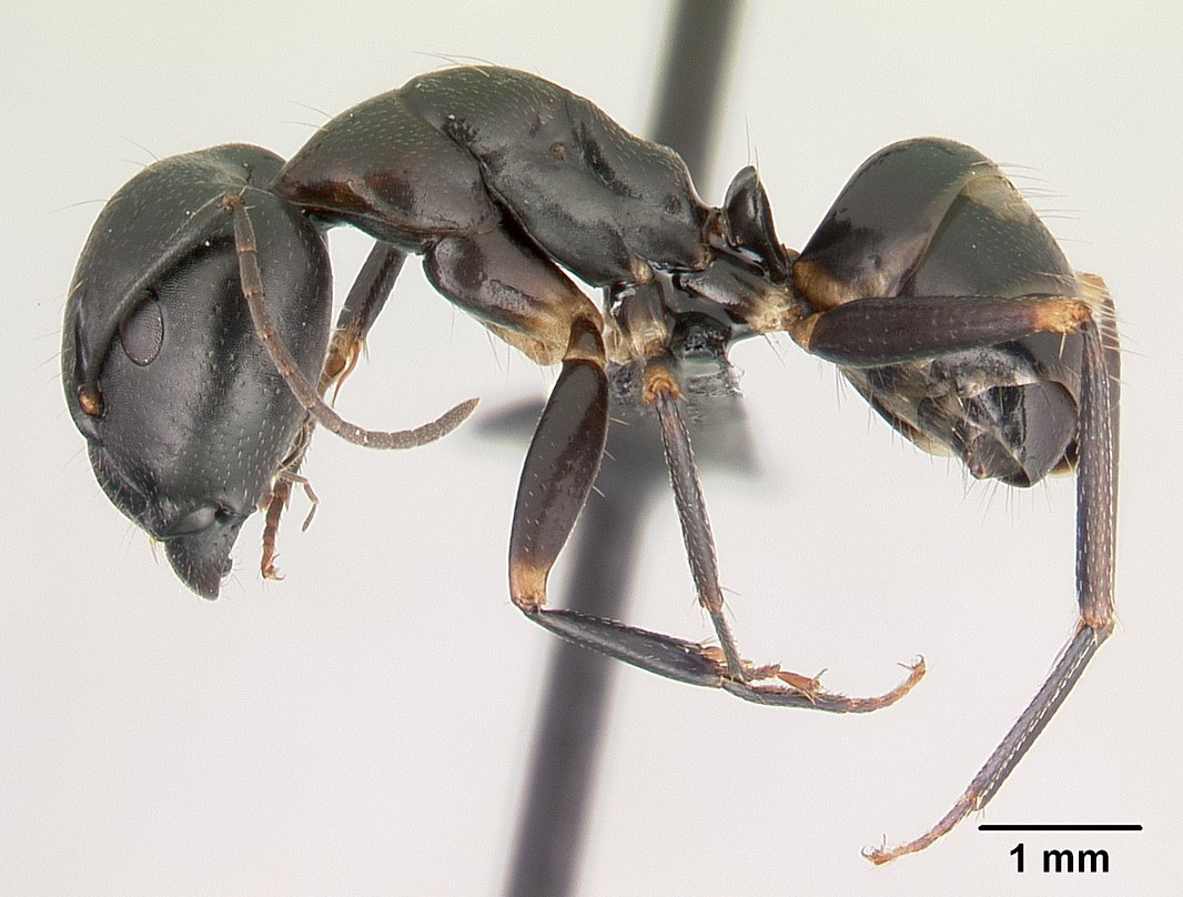 Profile view of ant Camponotus quadrimaculatus specimen casent0145975.